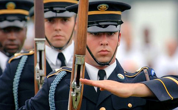 Best of the US Army - Fort Eustis Virginia